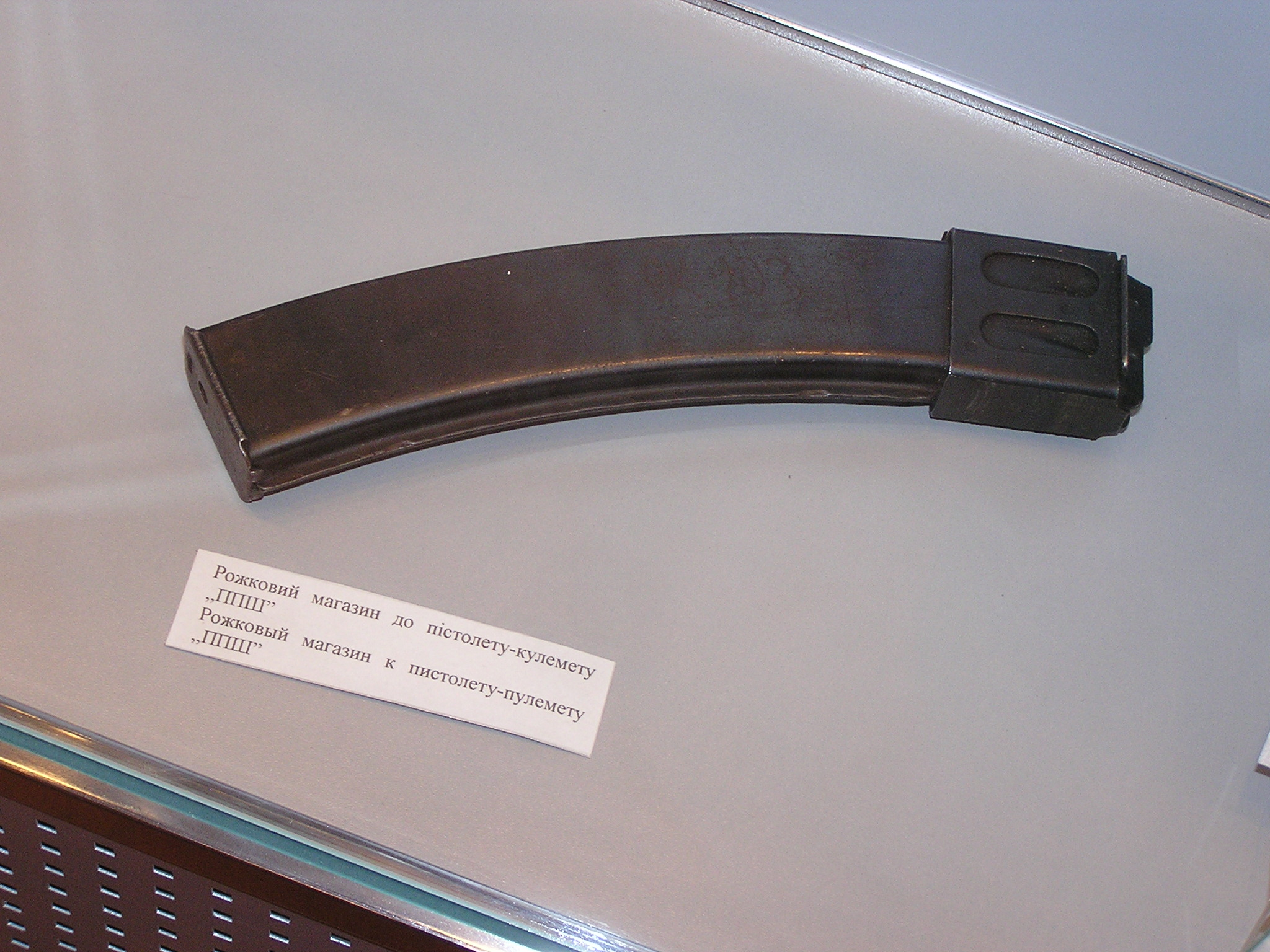 Museum of the History of Donetsk militsiya